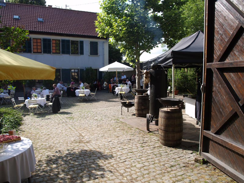 Mohrenmuehle near Gau-Heppenheim